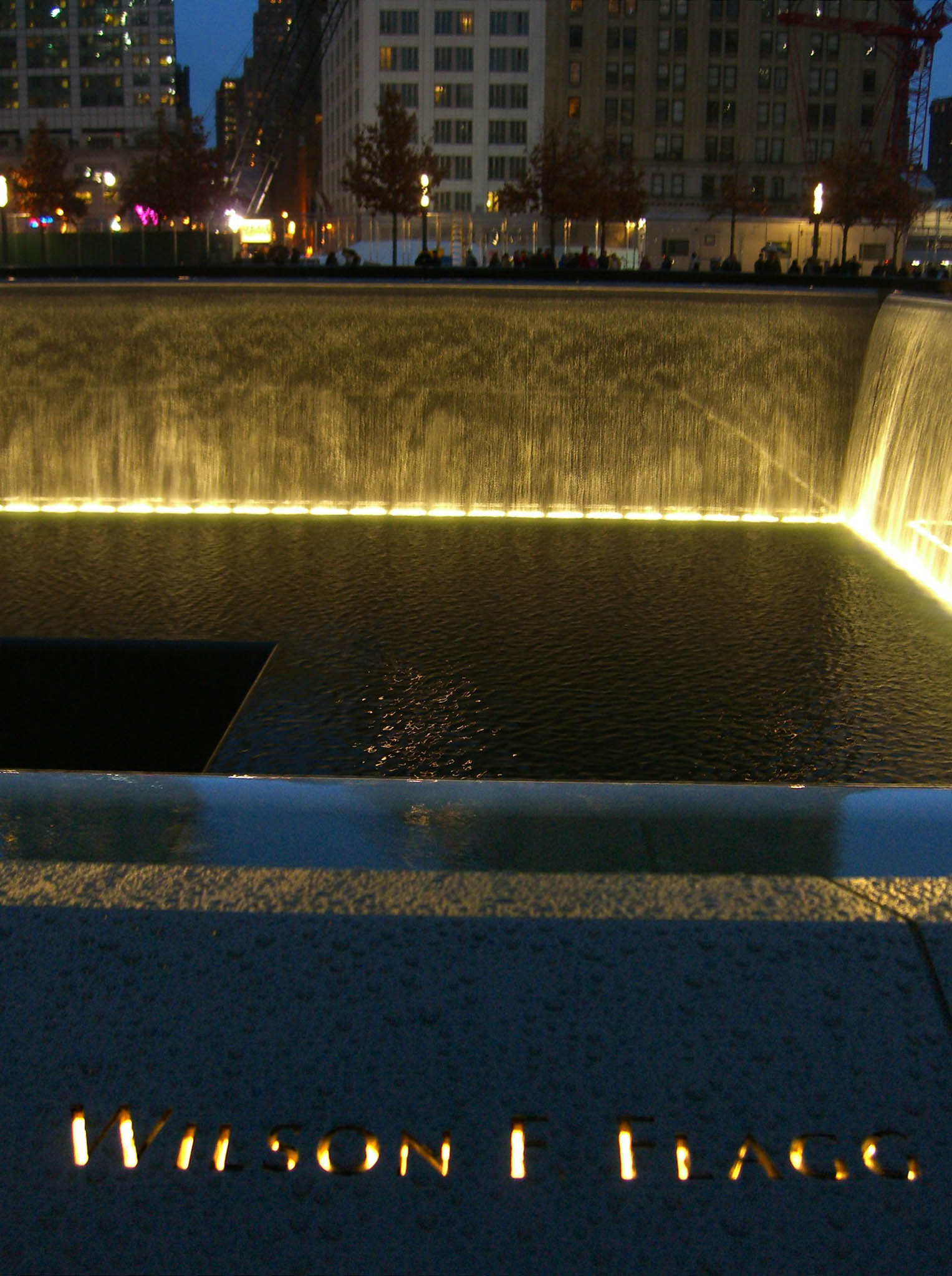 The name of Wilson Flagg is seen among those of other 9/11 victims from American Airlines Flight 77, inscribed on bronze panel S-70 of the South Pool of the National September 11 Memorial in Manhattan, on December 6, 2011. This photo was created by Luigi Novi. If you have any questions, you can contact me by sending me an email or User talk:Nightscream